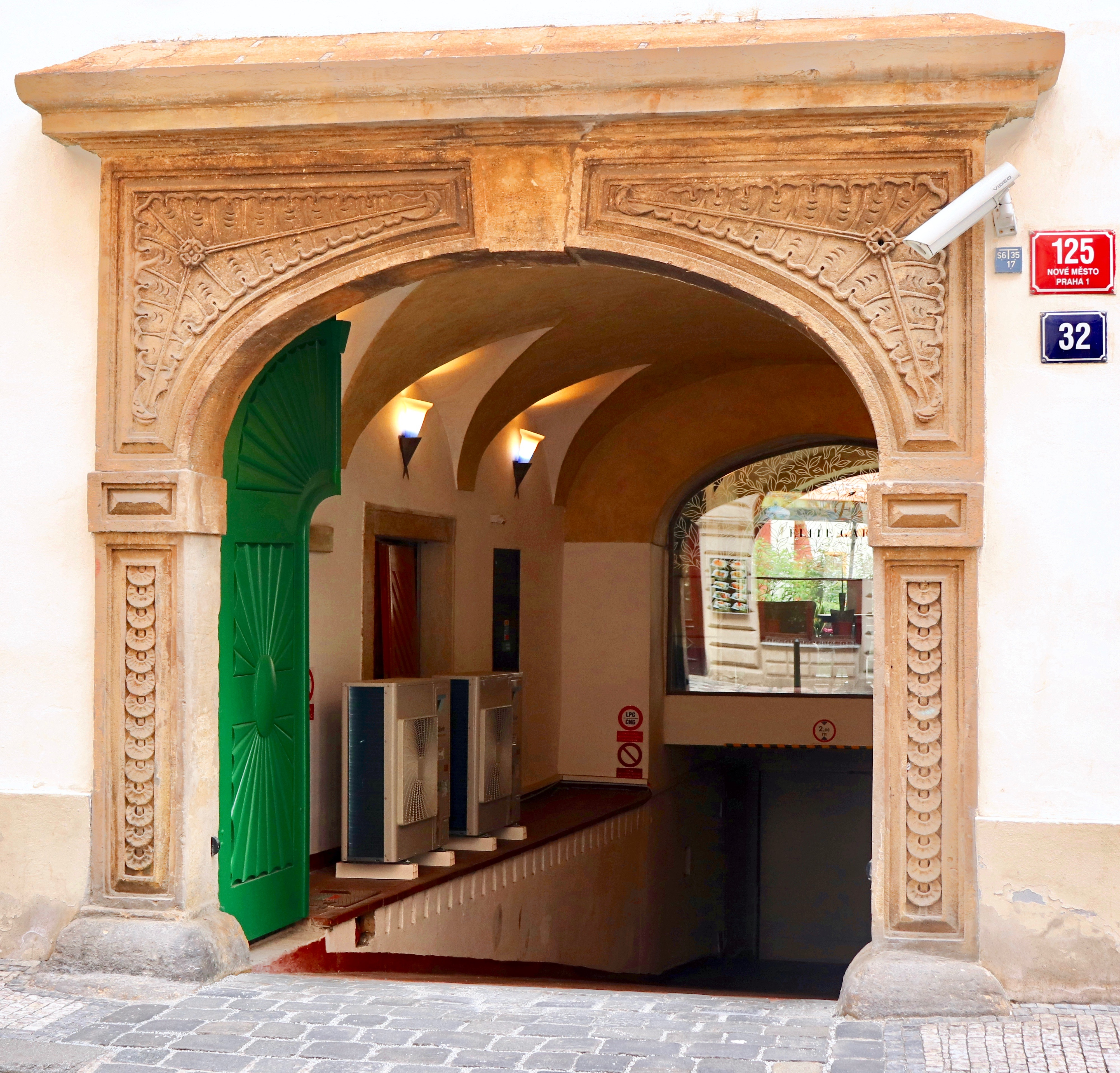 Klasicistní vrata č.p. 125